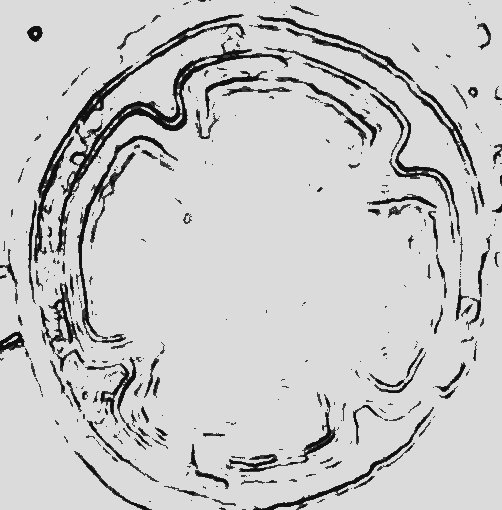 Drawing of the quatrefoil at La Blanca, located in San Marcos area, Retalhuleu Department, western Guatemala